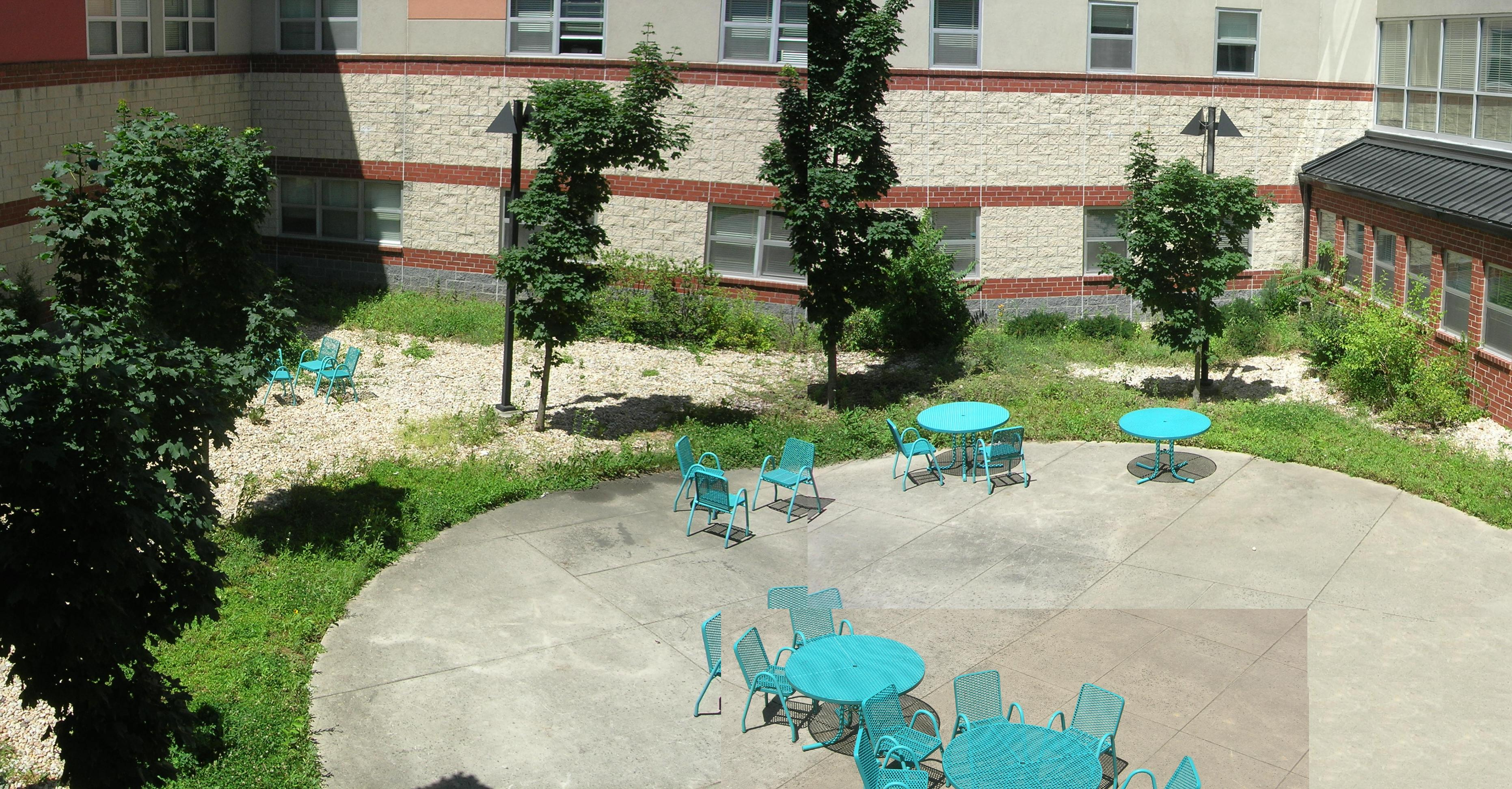 This is a photo collage/panoramic of the MBHS Staff Courtyard.